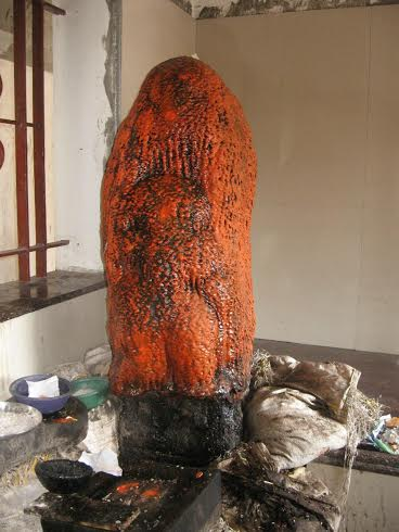 samarthshishya giridhar swami